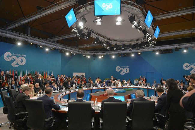 Before the first working session of the heads of the G20 member state delegations, invited nations and international organisations.